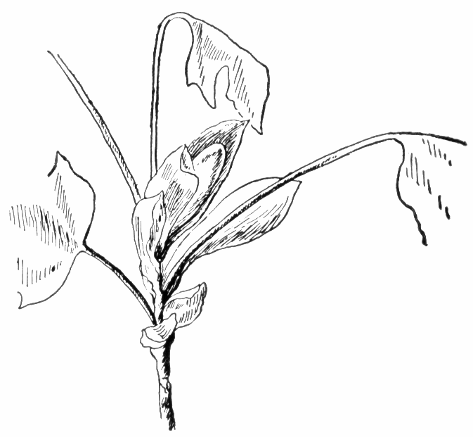 Unfolding leaves of the American Tulip tree.